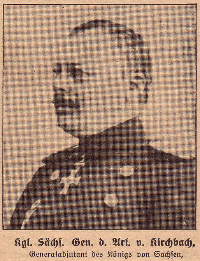 German General Hans von Kirchbach (WW1)